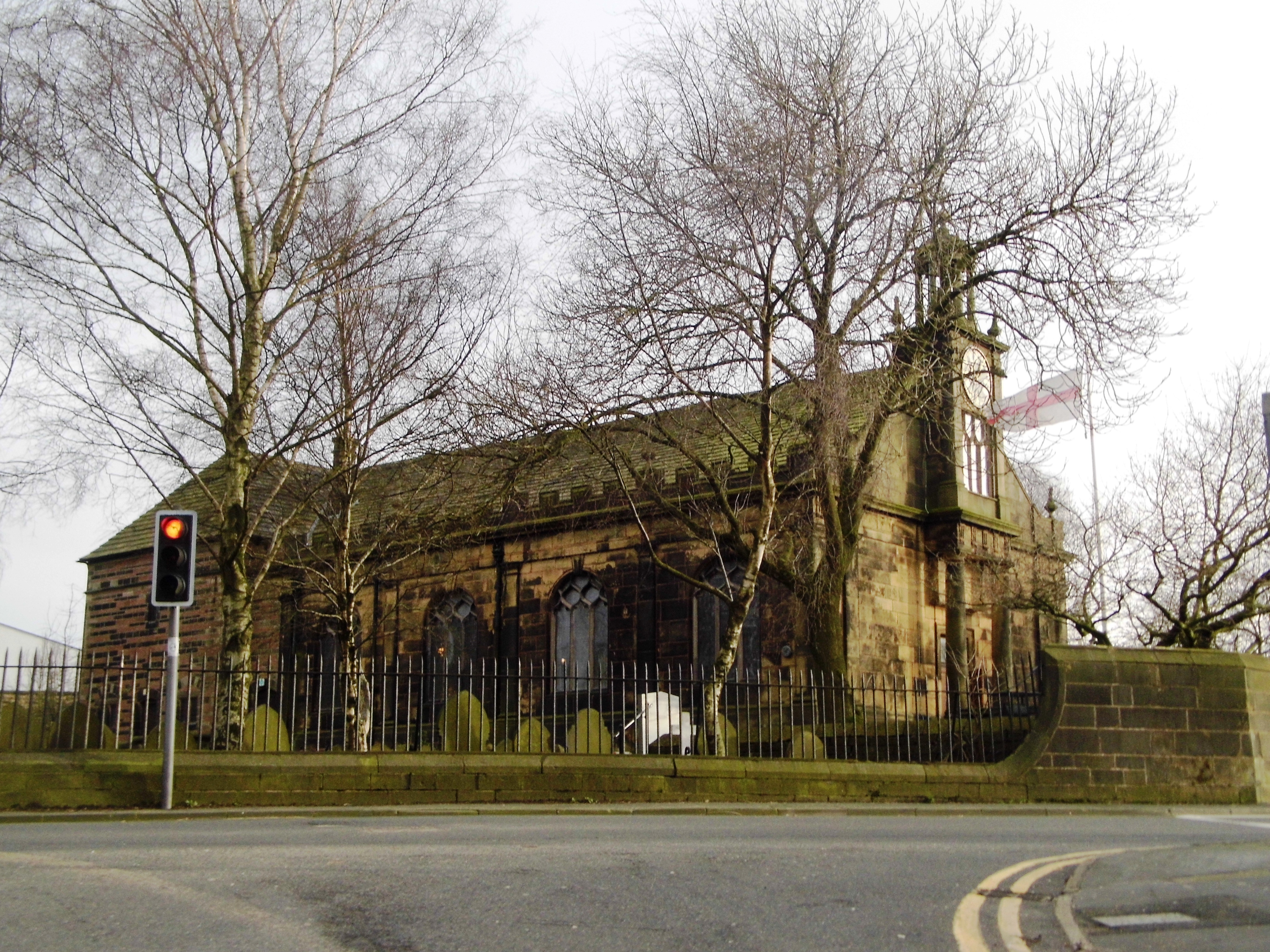 Photograph of St Aidan's Church, Billinge, Merseyside